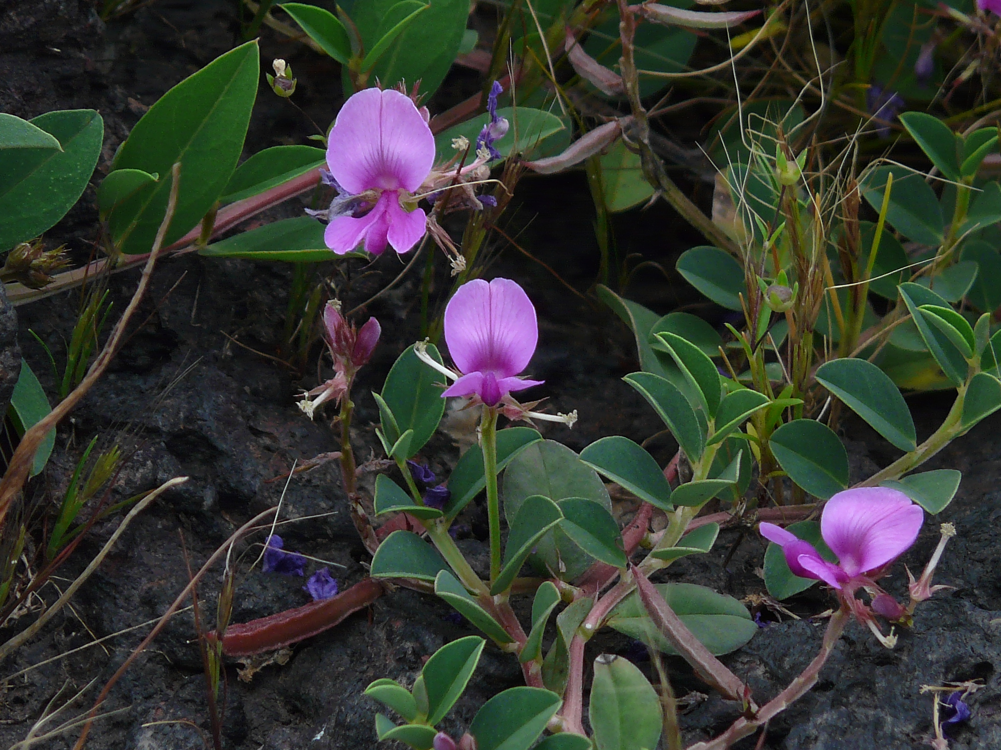 Fabaceae (pea, or legume family) » Indigofera dalzellii T.Cooke in-dee-GO-fer-uh -- bearing indigo ... Dave's Botanary ¿ del-ZEL-ee-eye ? -- named for N. A. Dalzell, collaborator with Gibson, of Bombay Flora commonly known as: shield indigo, Dalzell's indigo • Marathi: ढाल गोधडी dhal godhadi Endemic to: Western Ghats (of India) References: Flowers of India • Flowers of Sahyadri by Shrikant Ingalhalikar